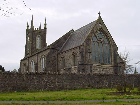 St Mark's Parish Church, Killylea. St Mark's Church of Ireland was consecrated in 1832.